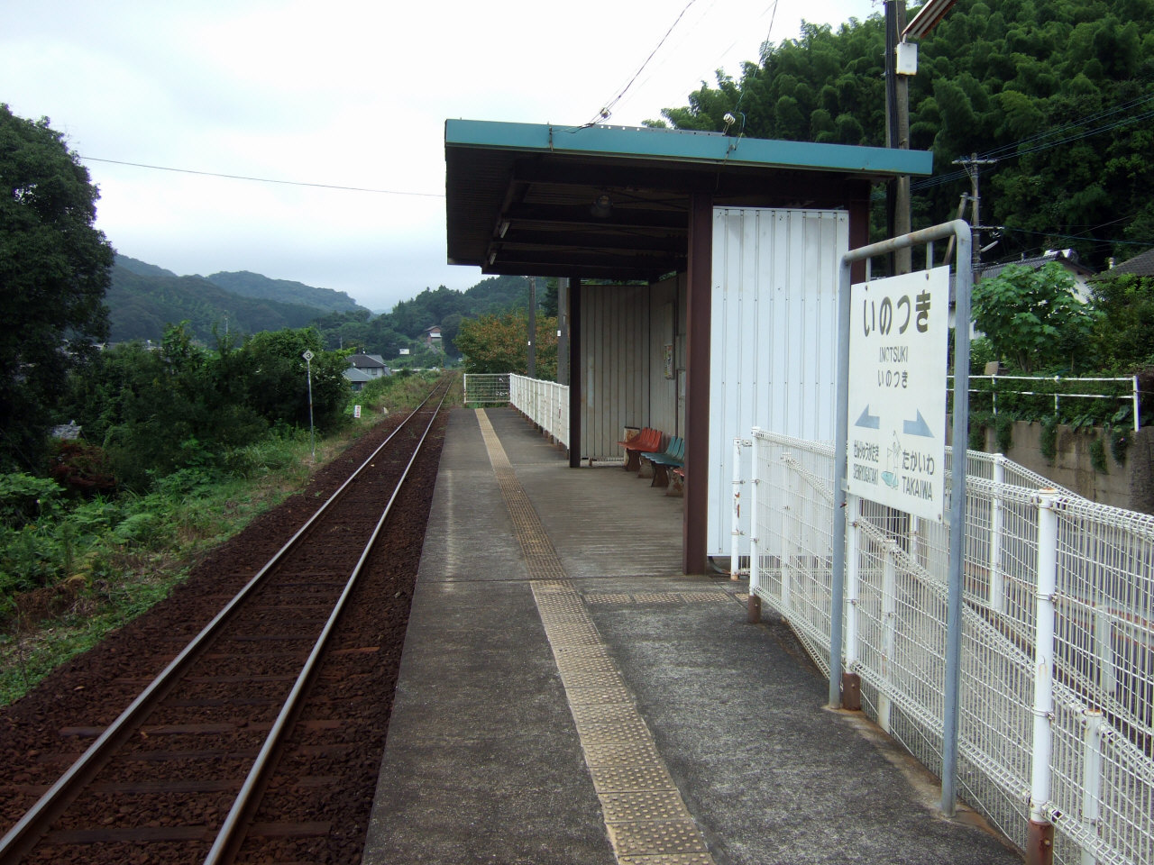 Platform of Inotsuki Station(Matsuura Railway Nishi-Kyushu Line)